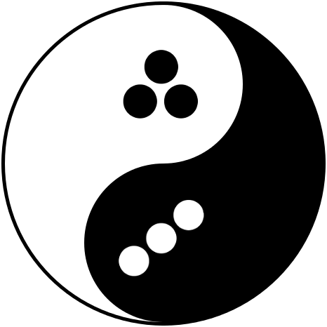 Jurimetrics symbol. Represents the harmony between 'juri' -- indicated by the three dots forming a triangle symbolizing the Three Prisms in a stylized balance -- and 'metrics', indicated by three aligned dots forming a stylized scatter plot.